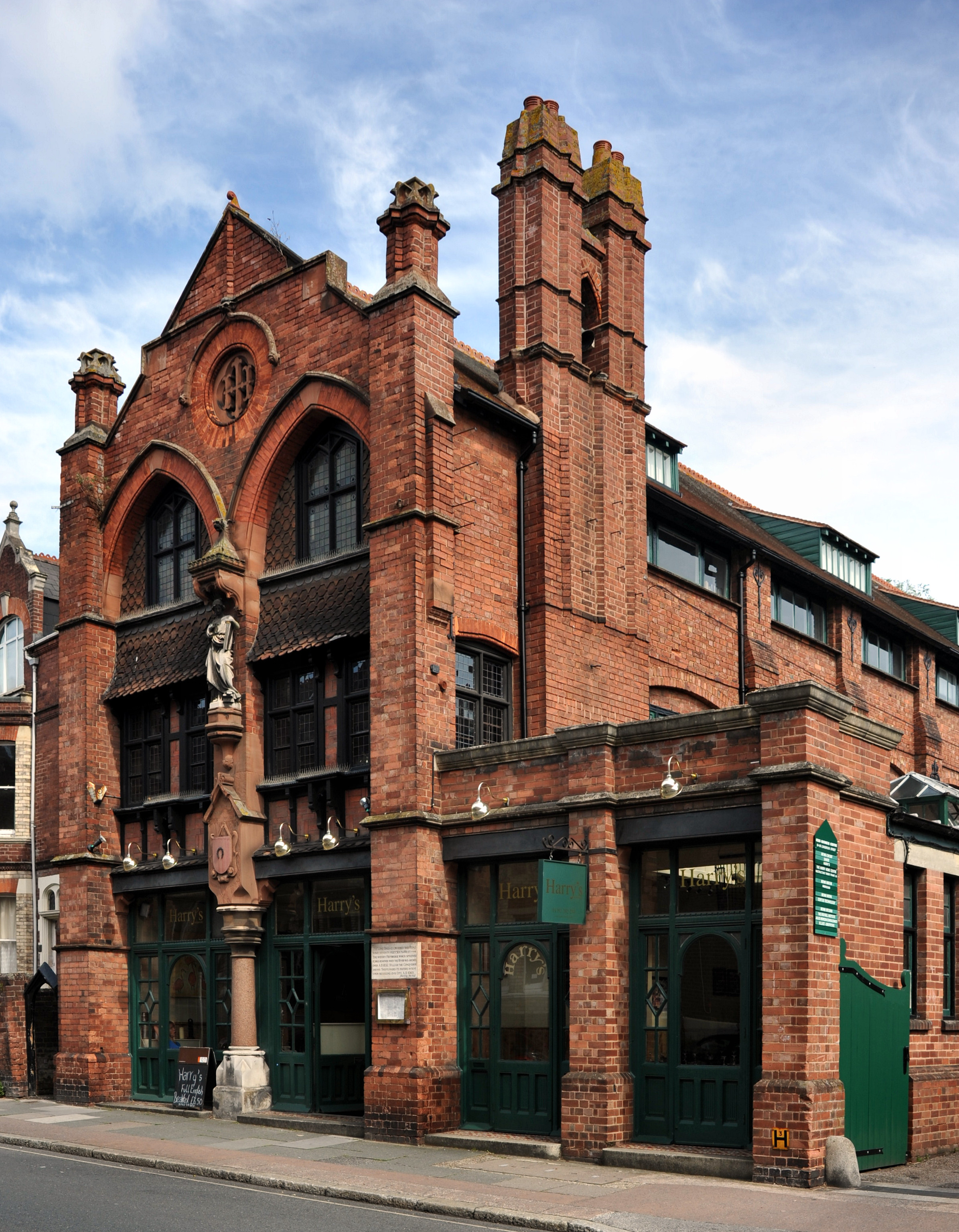 The former workshop of Harry Hems in Longbrook Street, Exeter, Devon, England. Now houses a restaurant on the ground floor with other businesses above.